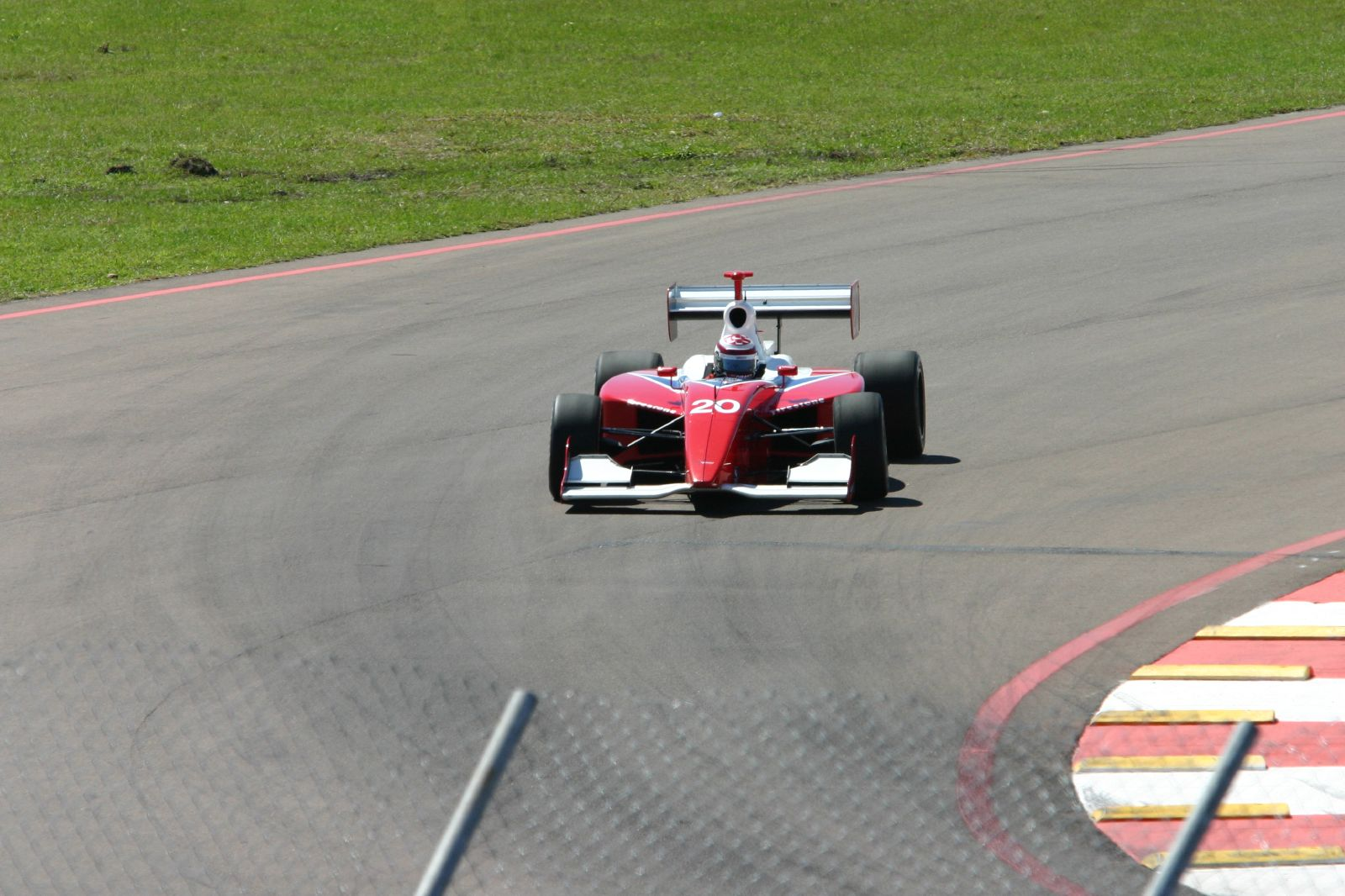 Jake Drake Driving an Infiniti Pro Series car at the Streets of St. Petersburg in 2005